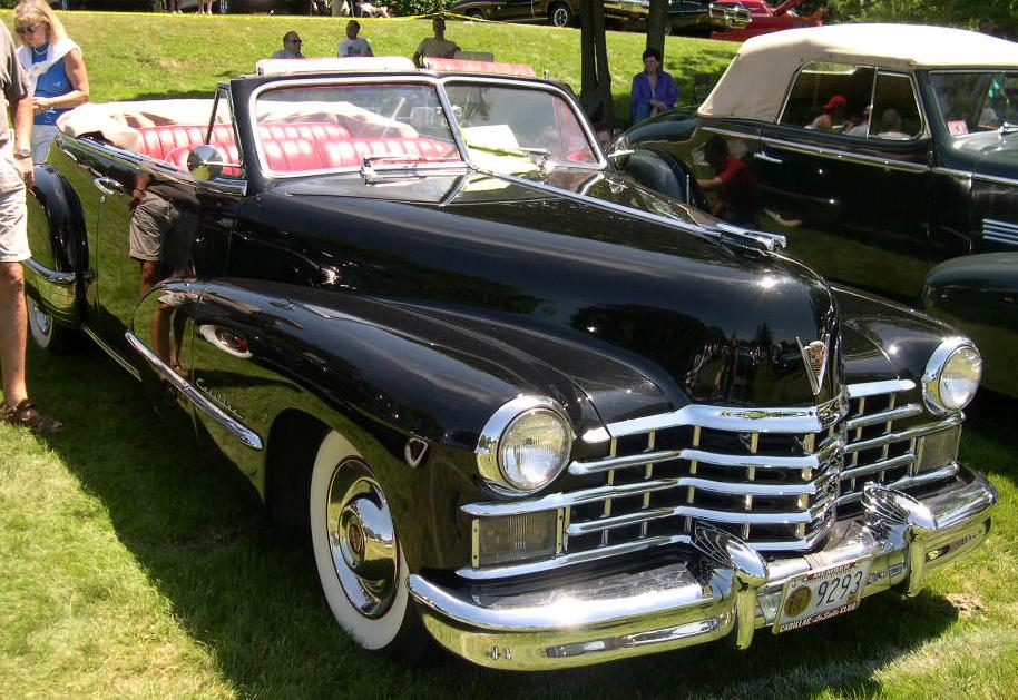 1947 Cadillac Series 62 Convertible Source: Photographed at the Bay State Antique Automobile Club's July 10, 2005 show at the Endicott Estate in Dedham, MA by User:Sfoskett